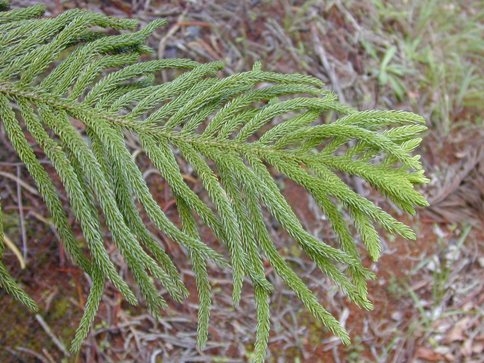 Araucaria columnaris (branch). Location: Maui, Makawao Forest Reserve